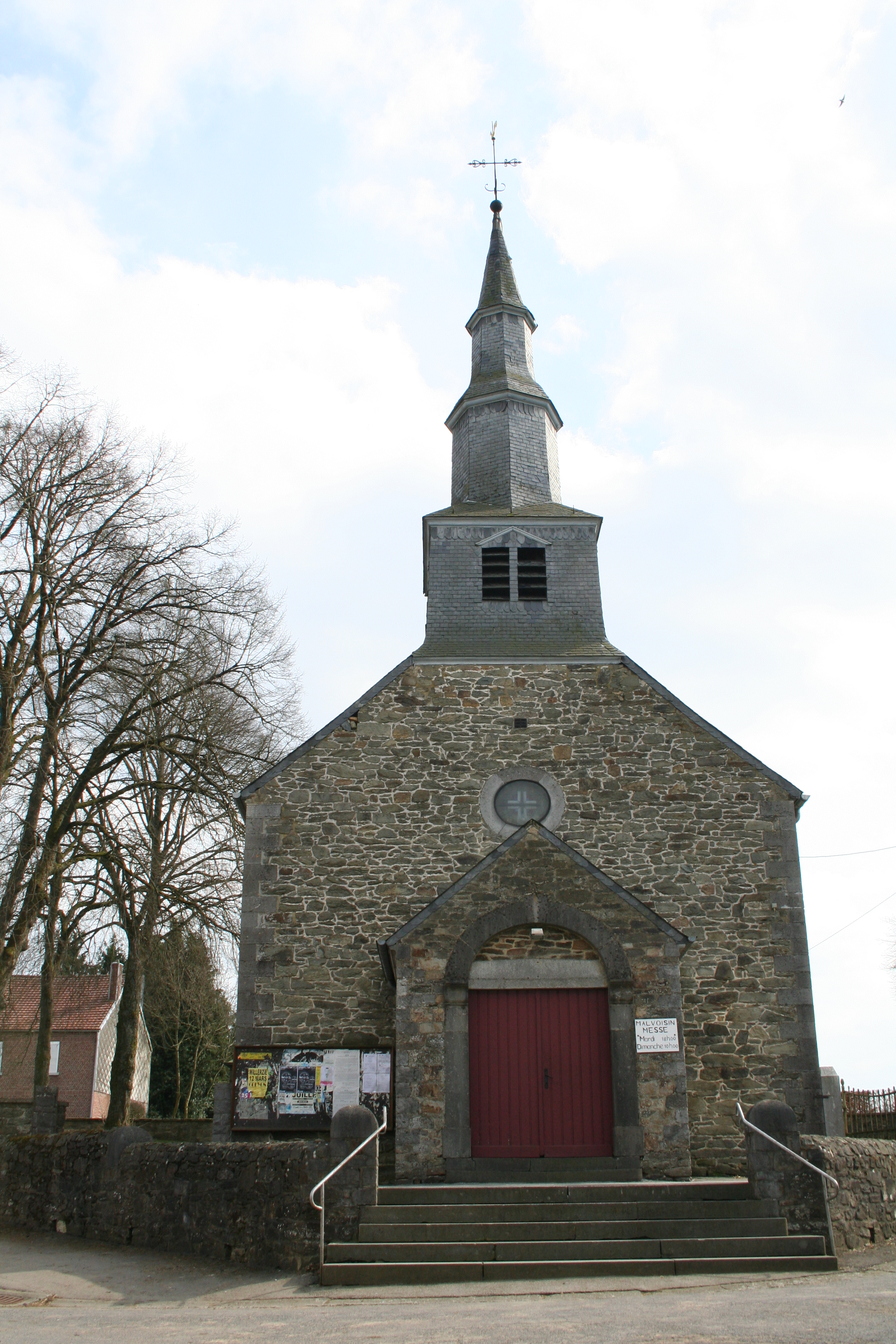 Malvoisin (Belgium), the St. Hilarius chapel (1840).